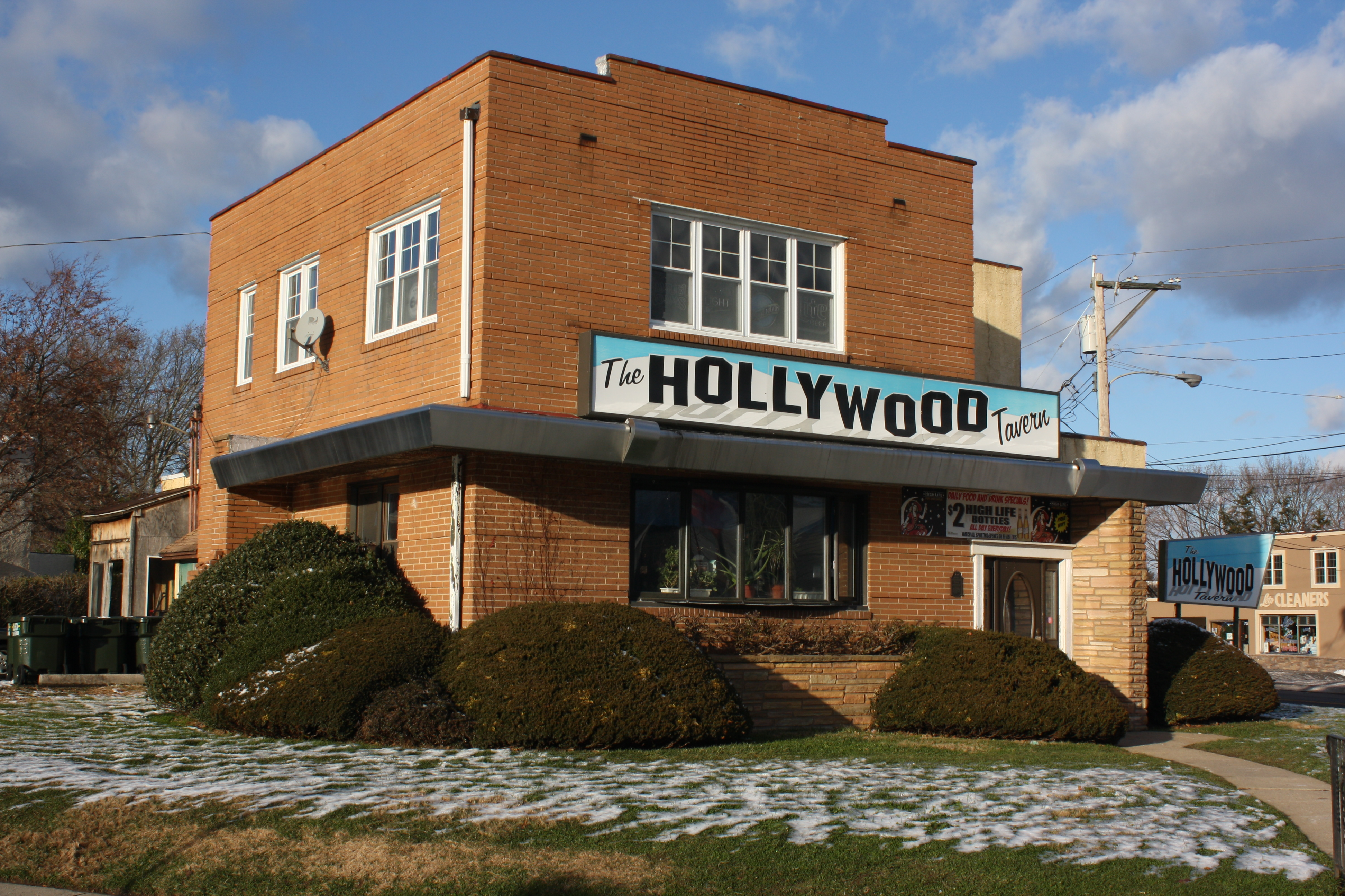 Hollywood Tavern is located on the corner of Huntigdton Pk and Gibson Ave, Hollywood, an unincorporated community in the southern portion of Abington Township, Montgomery County, Pennsylvania, United States.